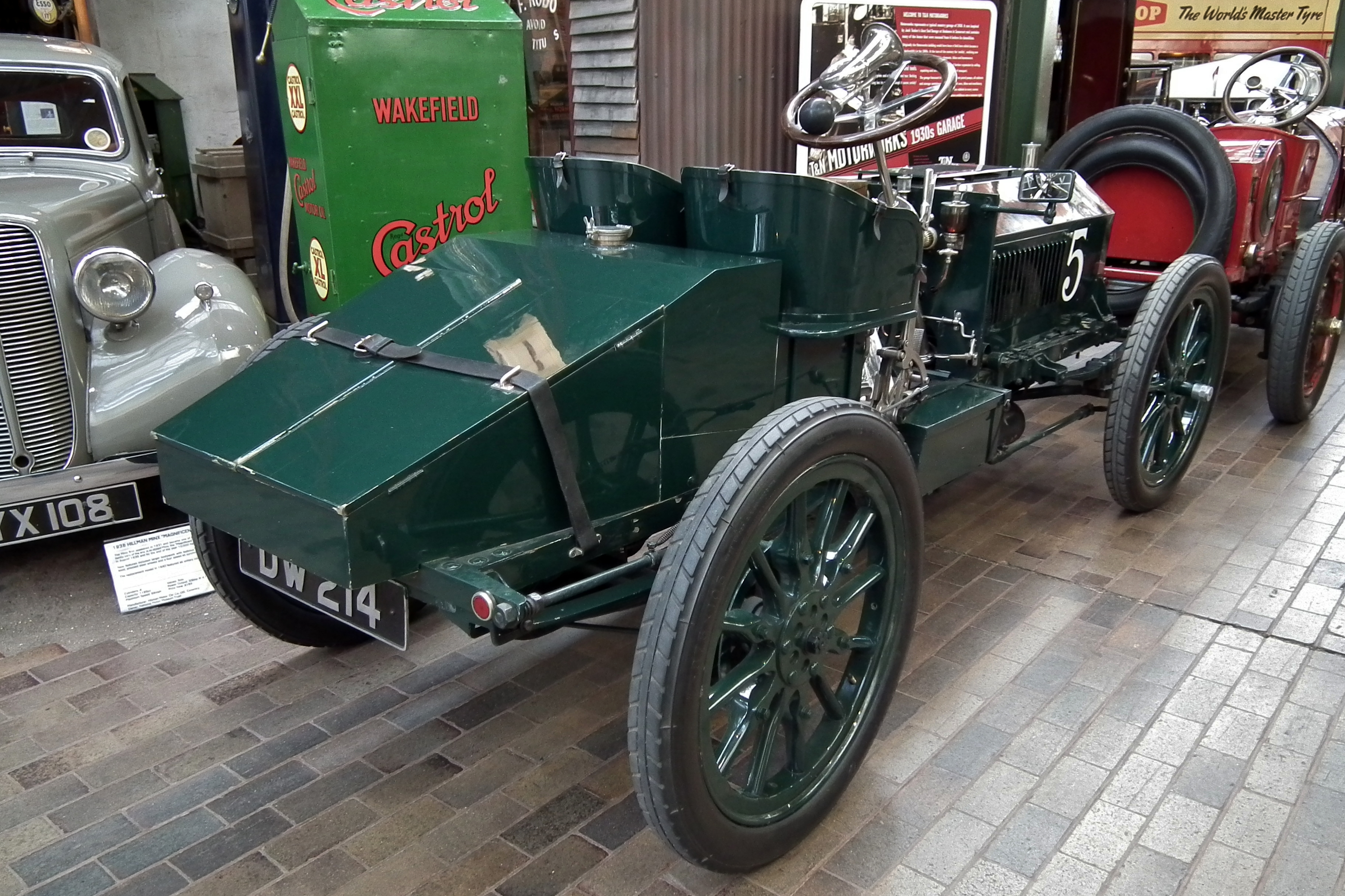 1903 Napier "Gordon Bennett". Taken at the National Motor Museum in Beaulieu, Hampshire, England.